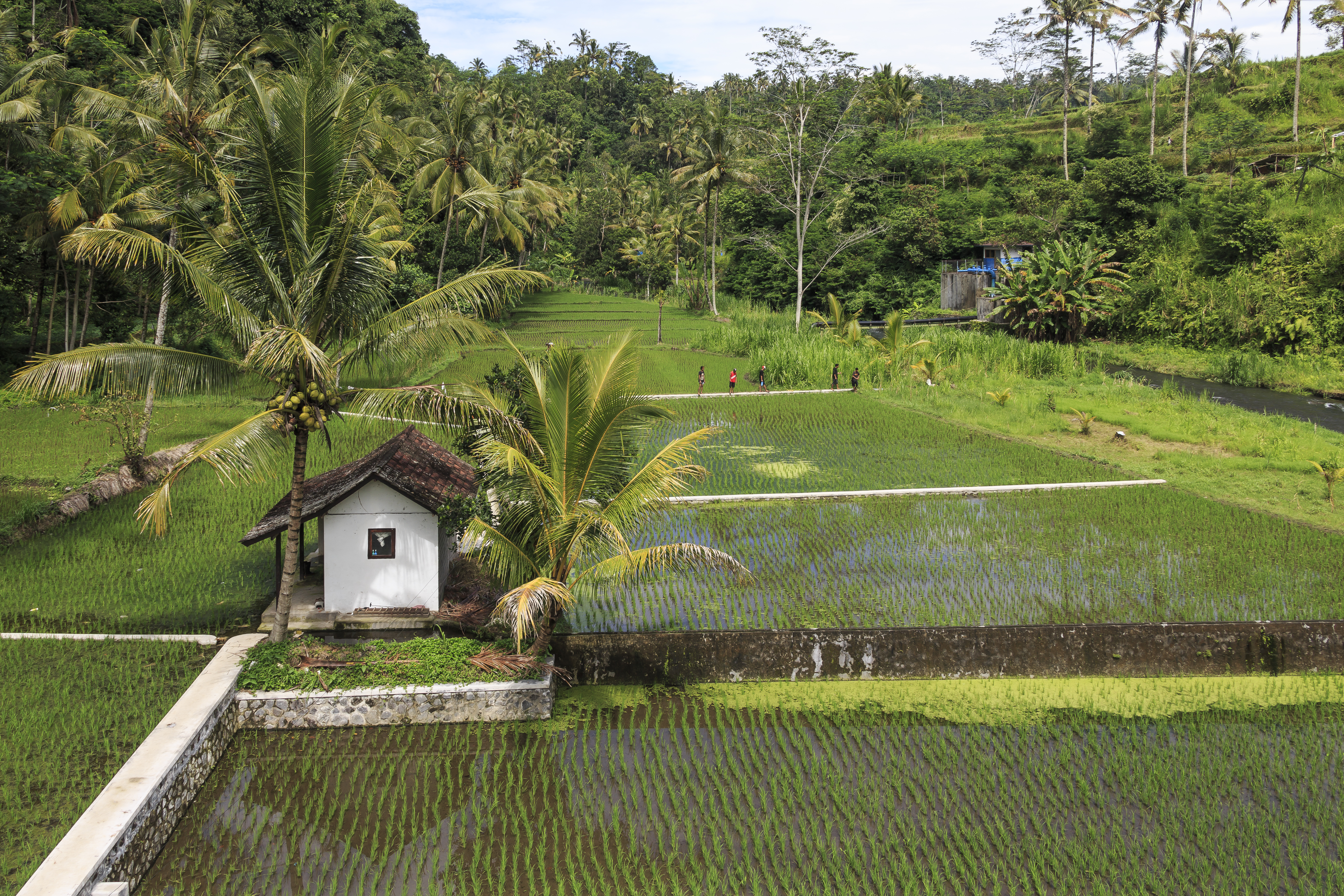 Desa Muncan, Bali, Indonesia: A rice paddy with irrigation system alongside Jalan Raya Muncan. The water is retrieved from Yeh Unda River (right side of the image).